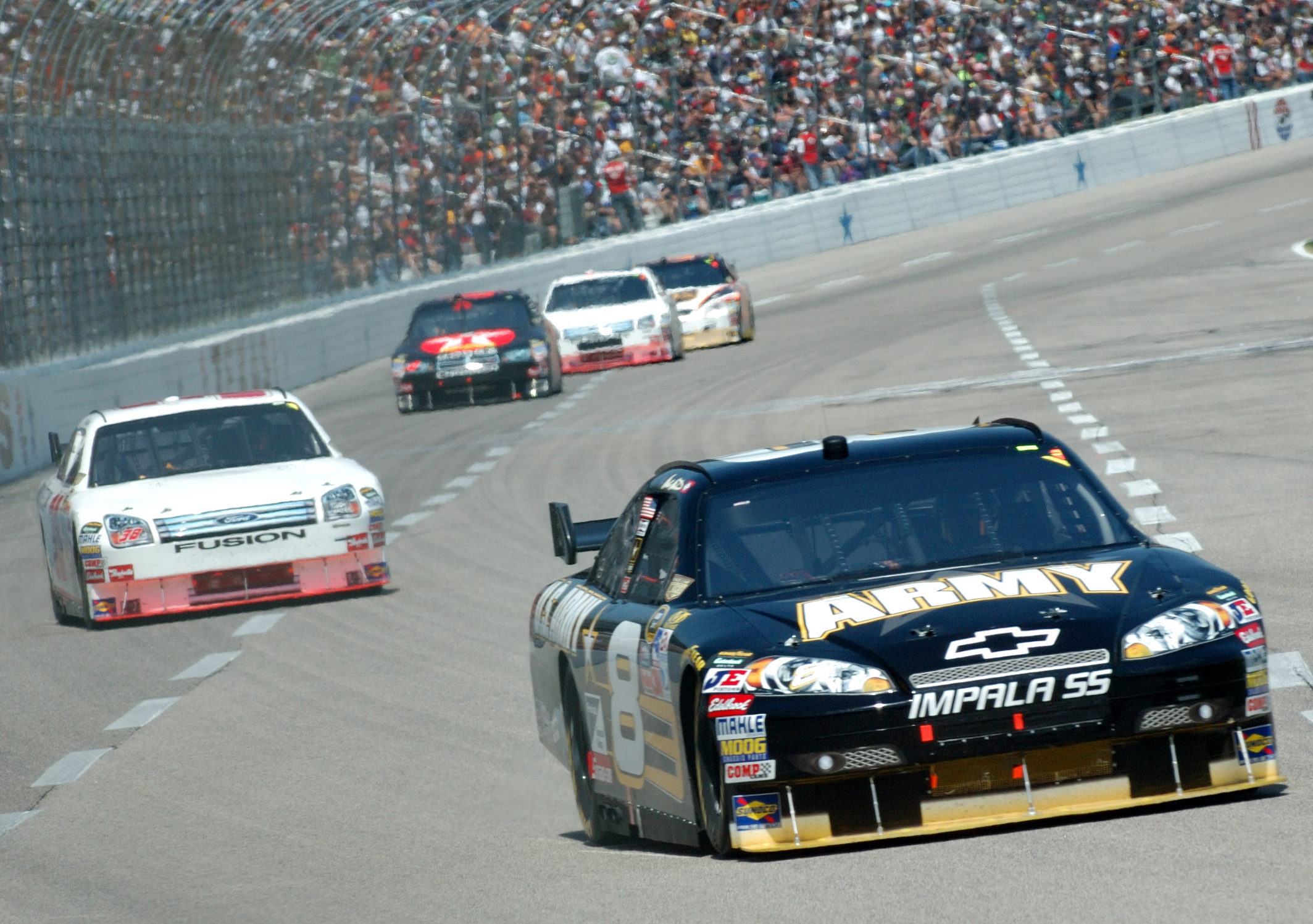 Mark Martin drives the number eight Army Chevrolet into turn one at Texas Motor Speedway en route to the team’s eighth-place finish in the Samsung 500 NASCAR race.